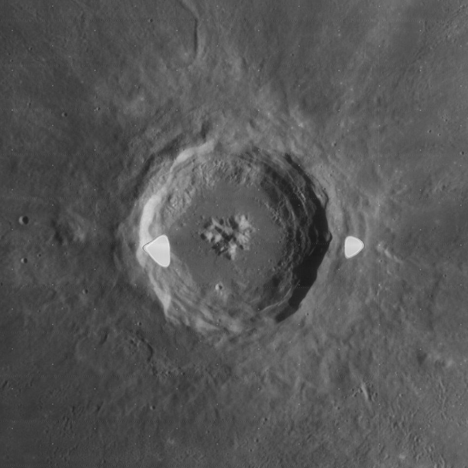 Aristillus, on the moon.